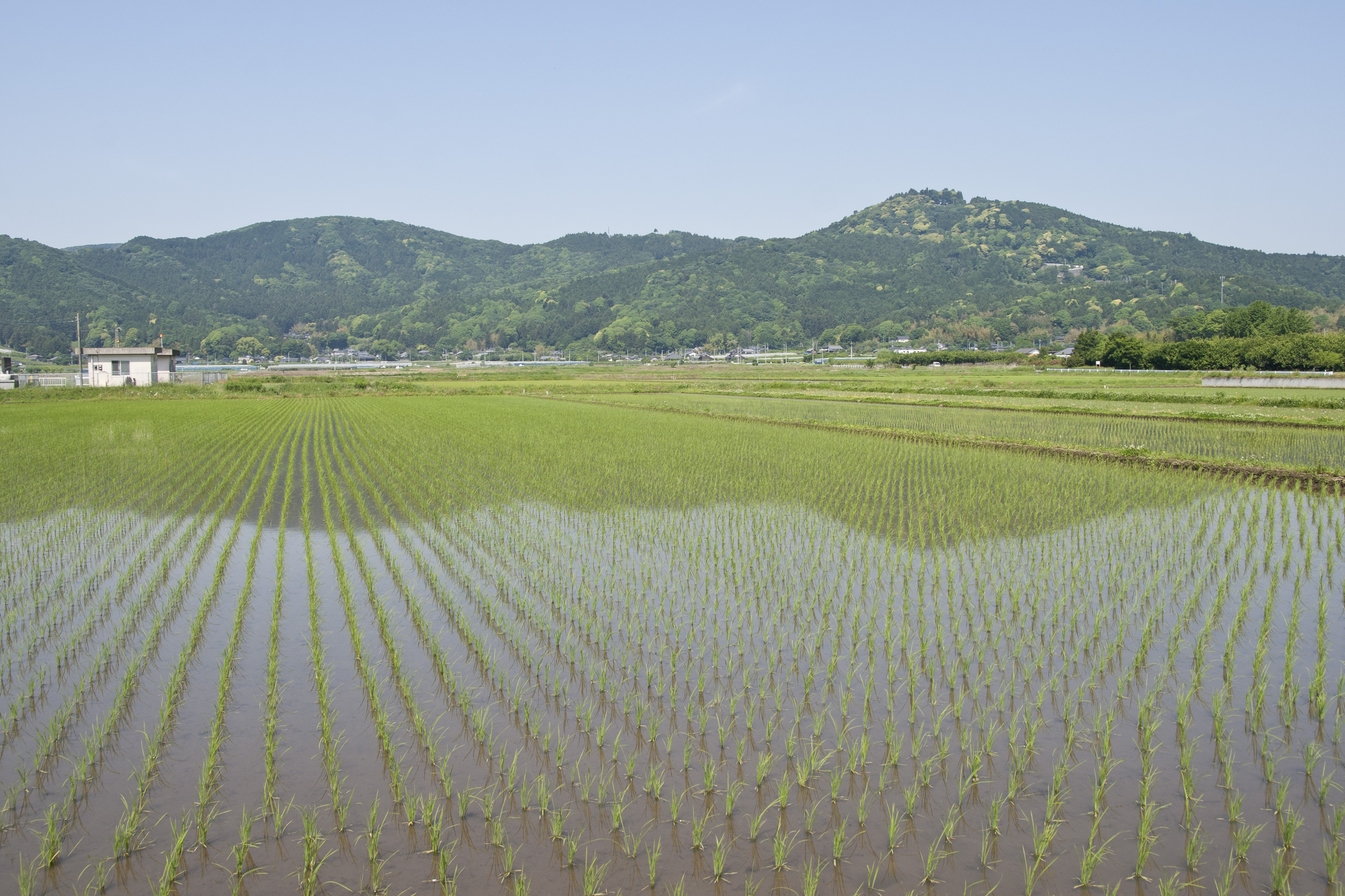 Mount Atago, Kasama City, Ibaraki Pref., Japan